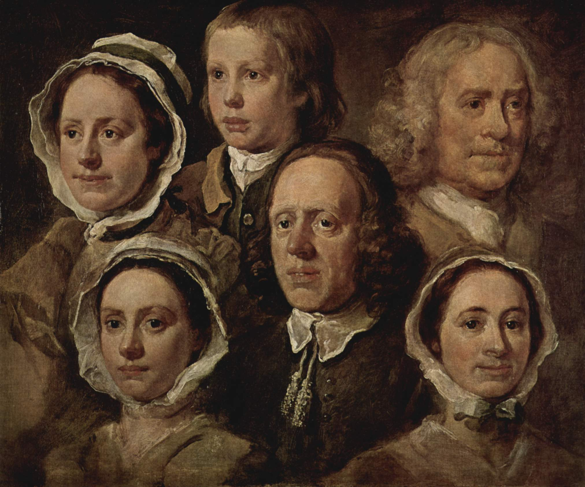 Hogarth's Servants